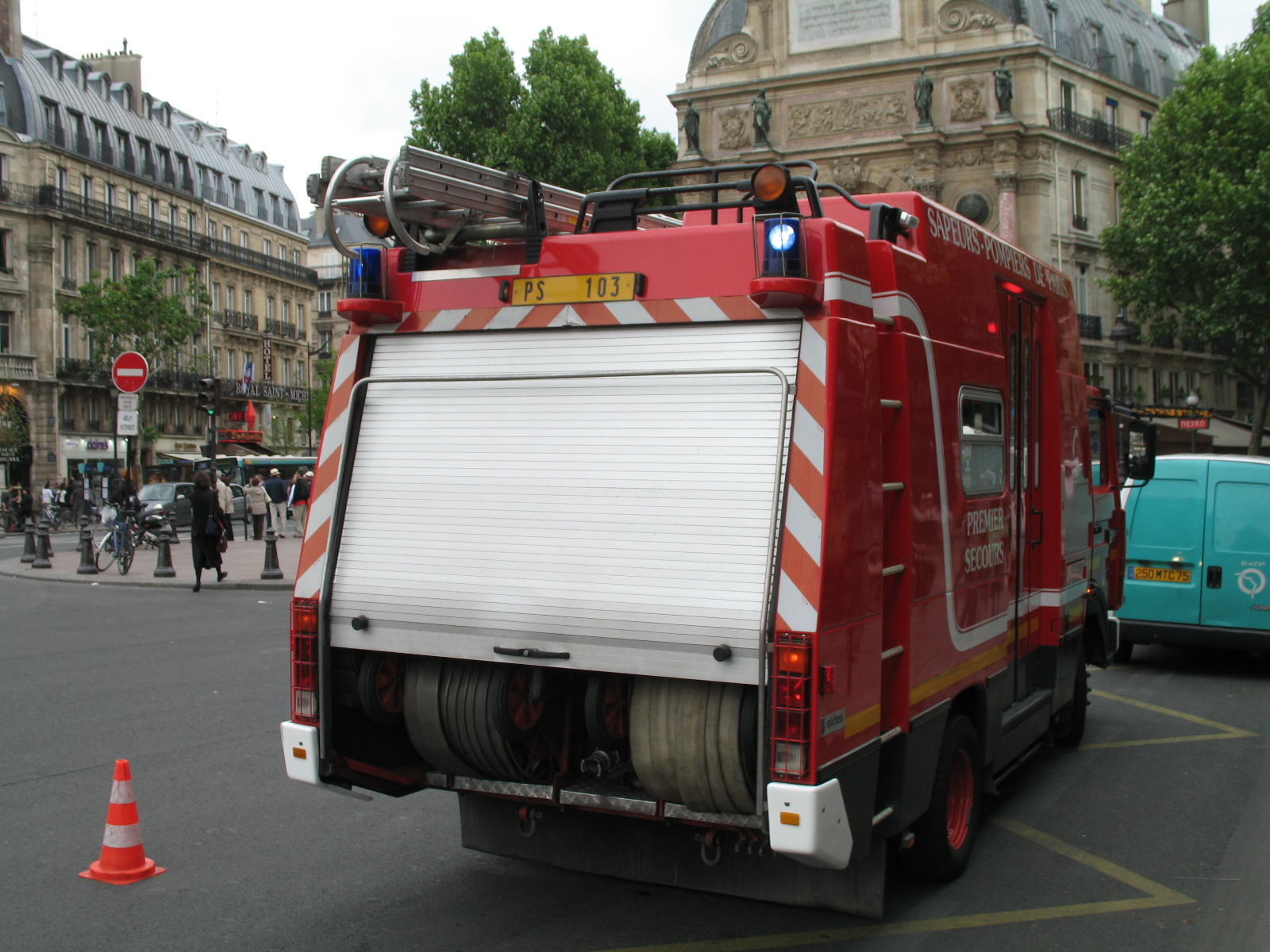 Fire truck from the Paris Fire Brigade